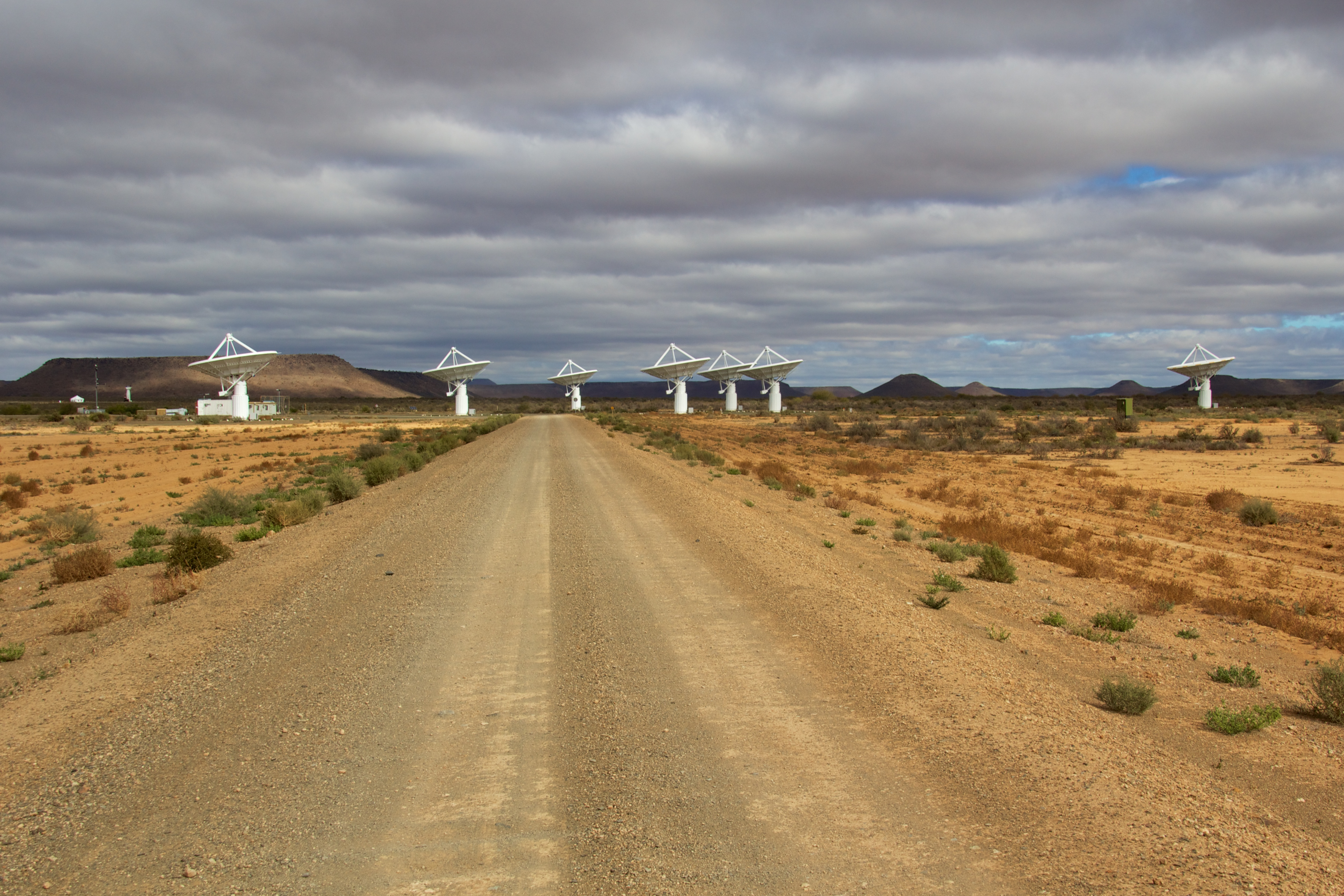 KAT-7. Square Kilometre Array site, north of Carnarvon, Northern Cape, South Africa.